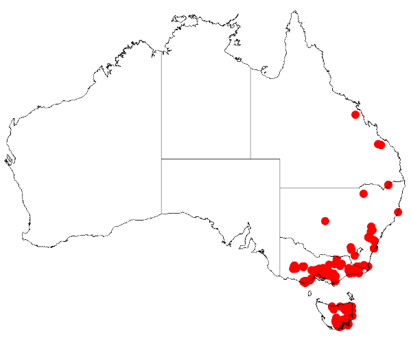 Acacia leprosa Occurrence data from Australasia Virtual Herbarium downloaded from on 8 December 2018